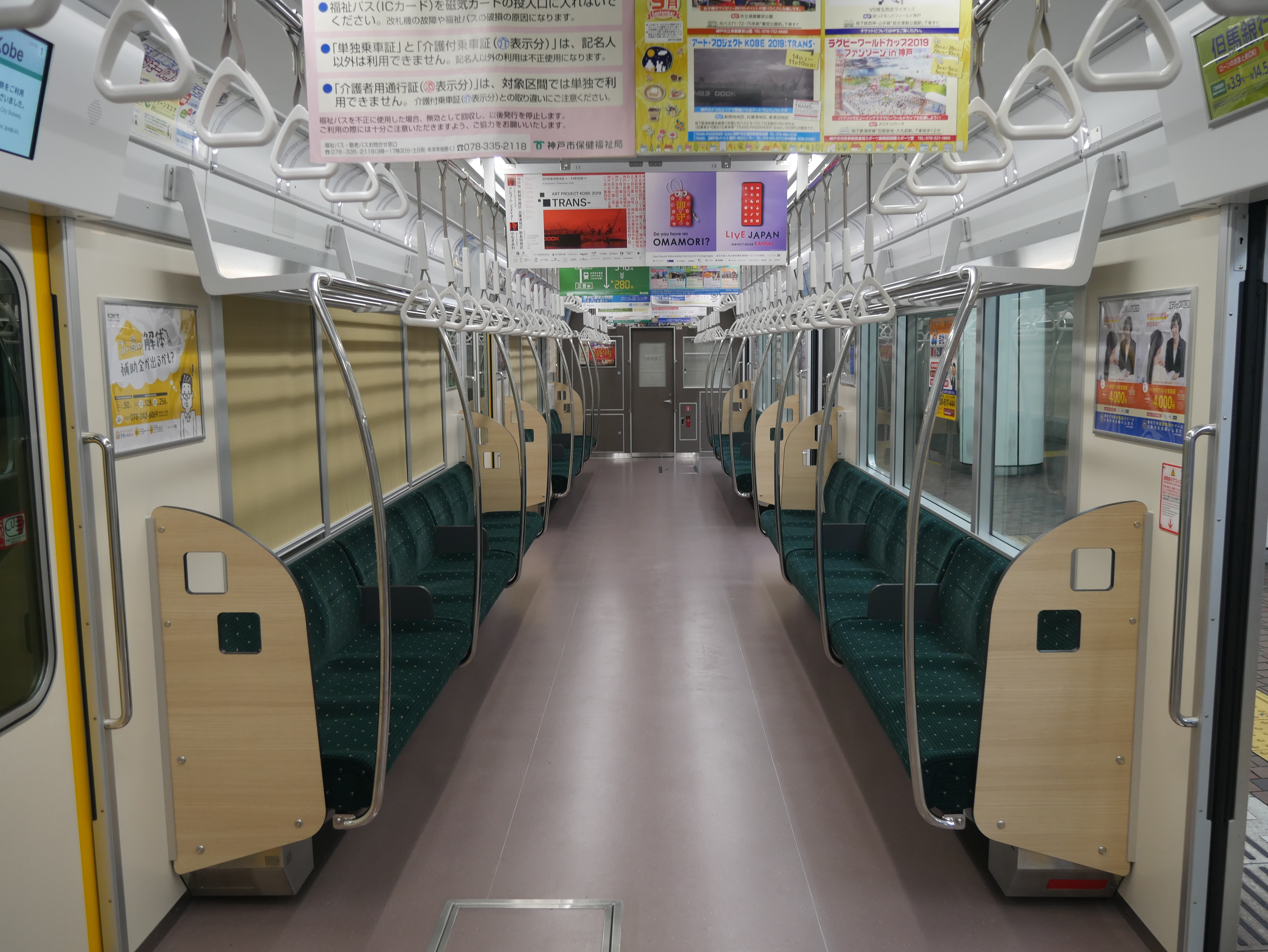 Inside Kobe subway 6133